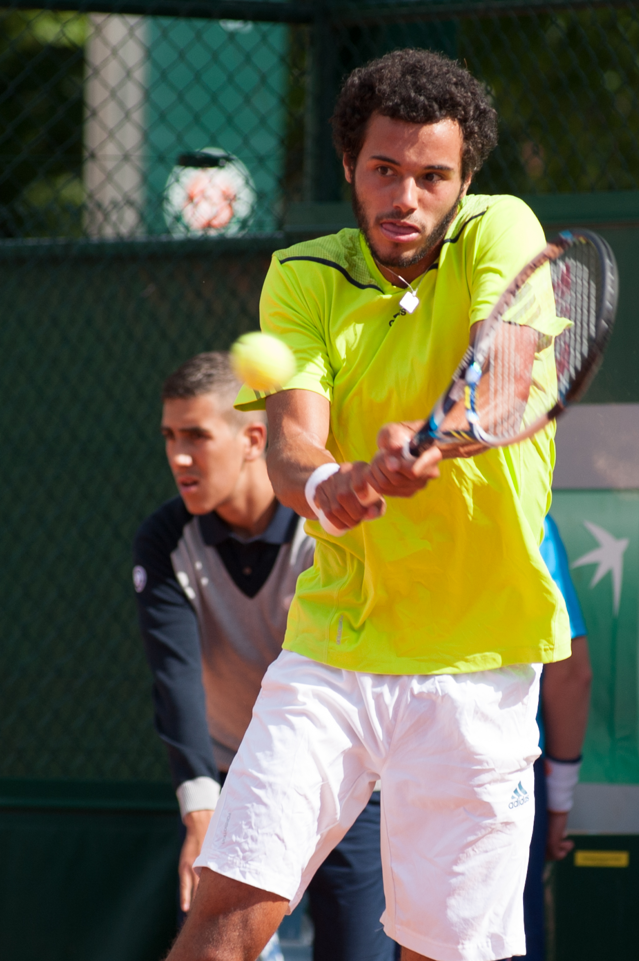 French Open (Roland Garros) 2014, qualifs day 3